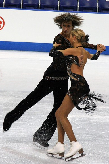 Skate Canada 2006 – Anastasia Platonova and Andrei Maximishin